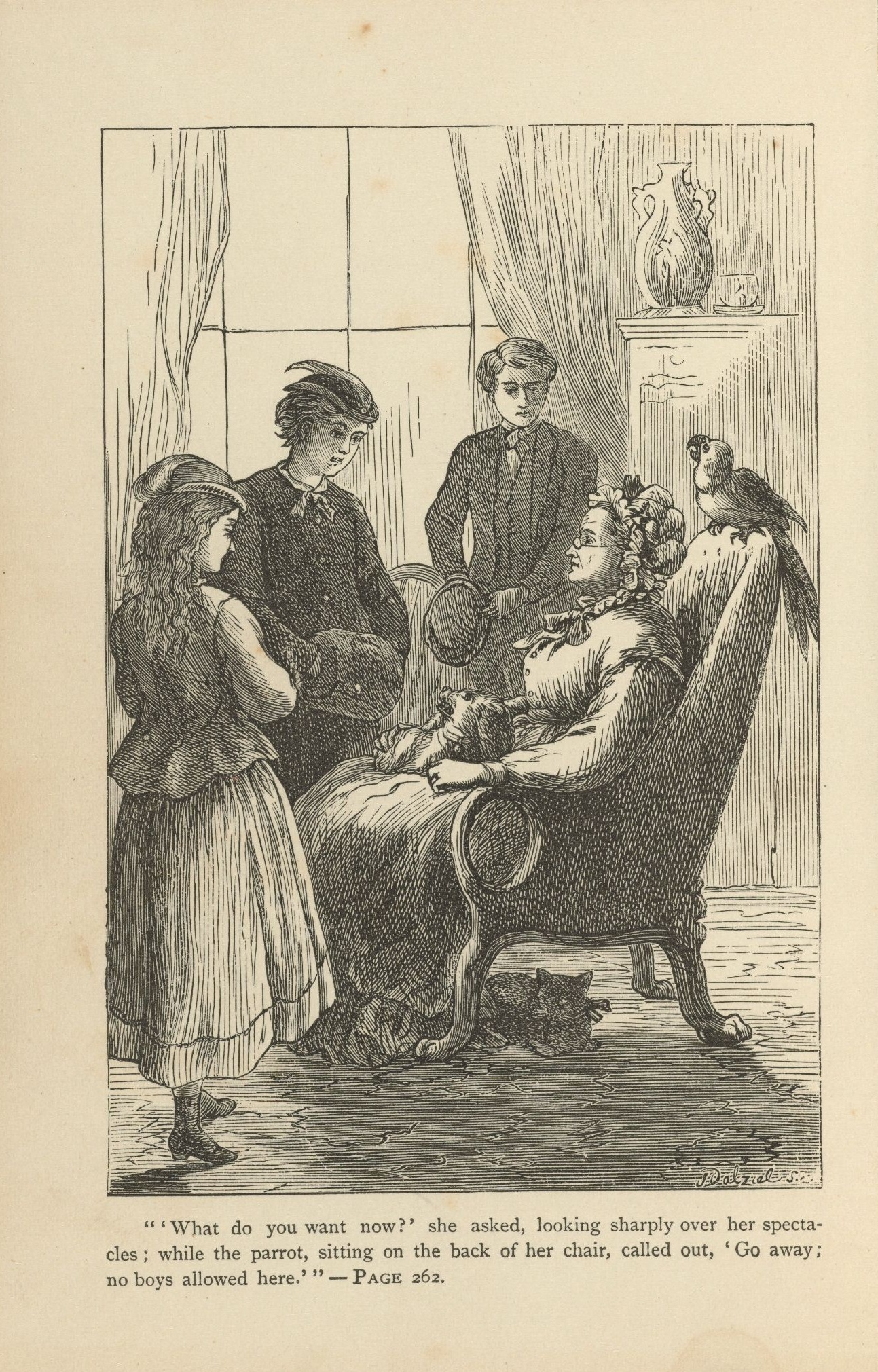 Frontispiece illustration from part 1 of Little Women by Louisa May Alcott (1832-1888), illustrated by her sister May Alcott. Boston: Roberts Brothers, 1868. *AC85.Aℓ194L.1869, Houghton Library, Harvard University